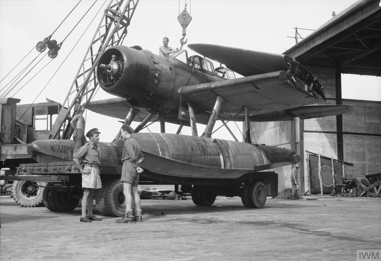 A Japanese Aichi E13A reconnaissance seaplane (codenamed 'Jake' by the Allies) is loaded aboard a flatbed truck at Seletar airfield by members of 126 Repair and Salvage Unit (RAF).